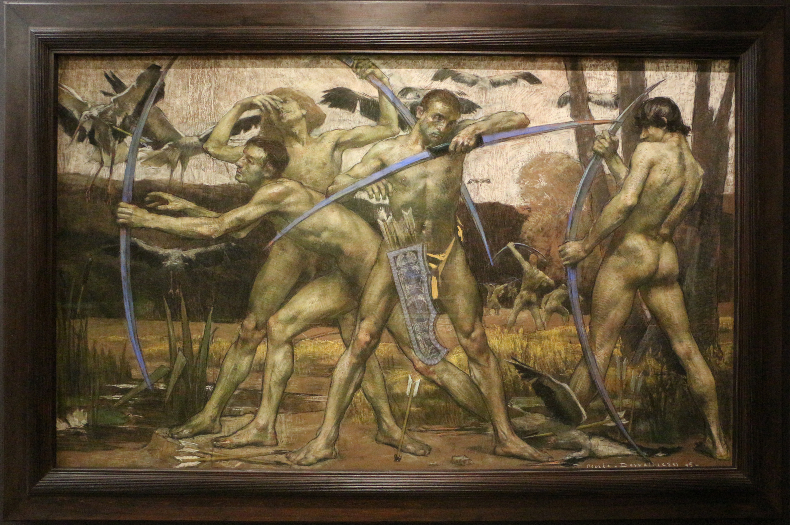 Paintings in Musée d'Orsay